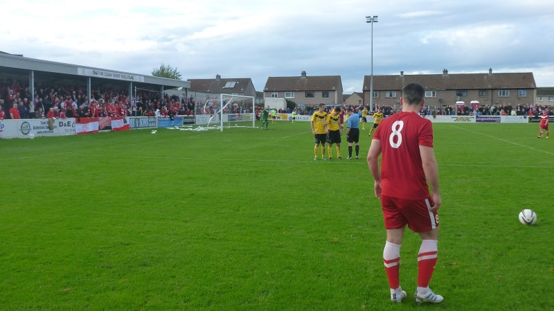 2013-14 North of Scotland Cup final, Nairn County F.C. 0 - 3 Brora Rangers F.C., Grant Street Park, Inverness, 19 October 2013